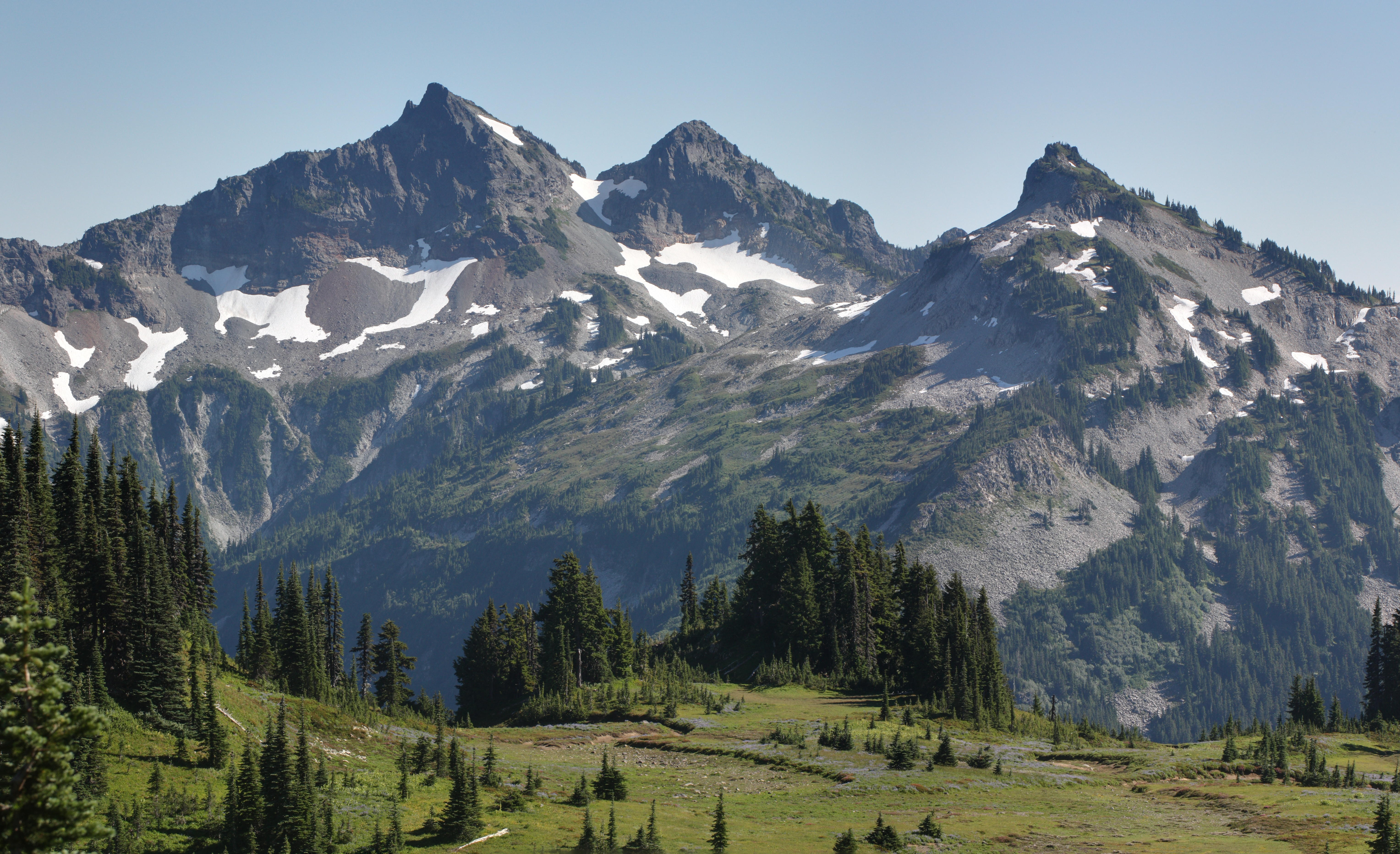 Unicorn Peak (left, 6971 feet, 2125 m); Manatee Mountain (right, 6524 feet, 1989 m); subalpine zone; merged high dynamic range image from other versions This image was created with Hugin